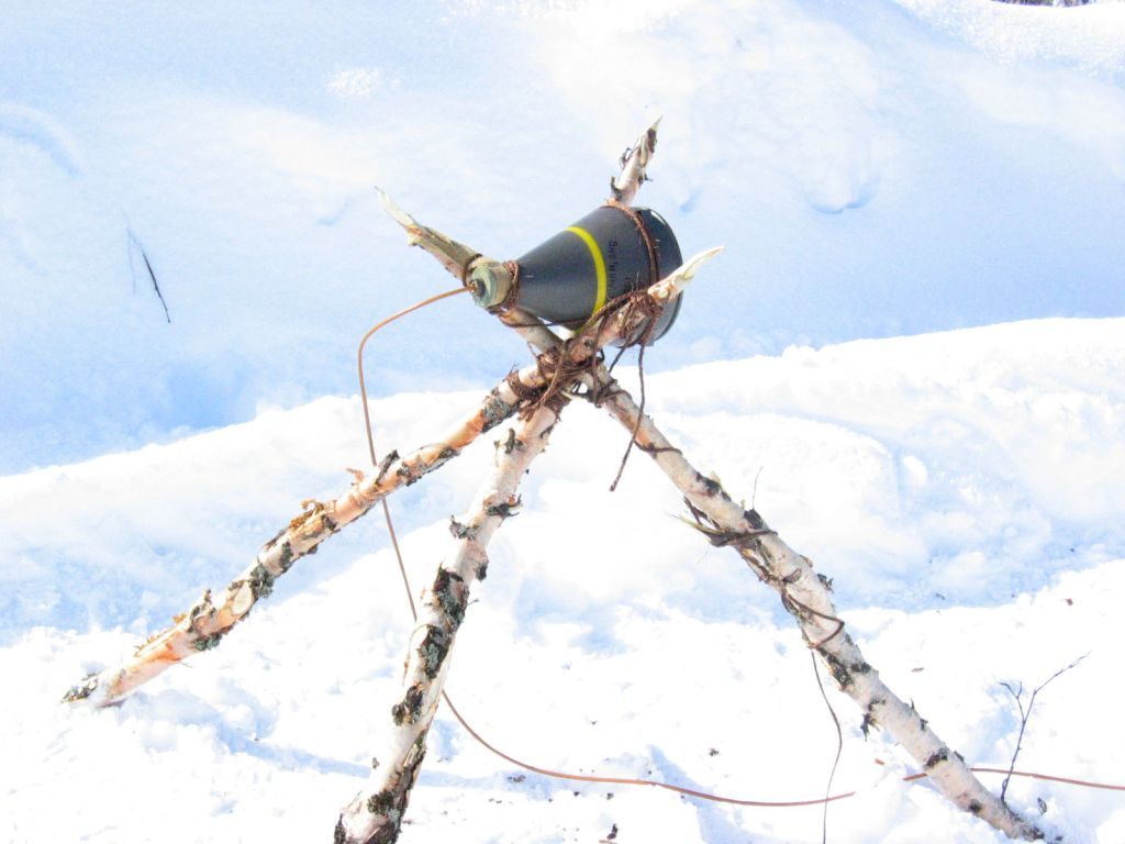 A cone charge rigged as a makeshift off-route anti-tank mine.